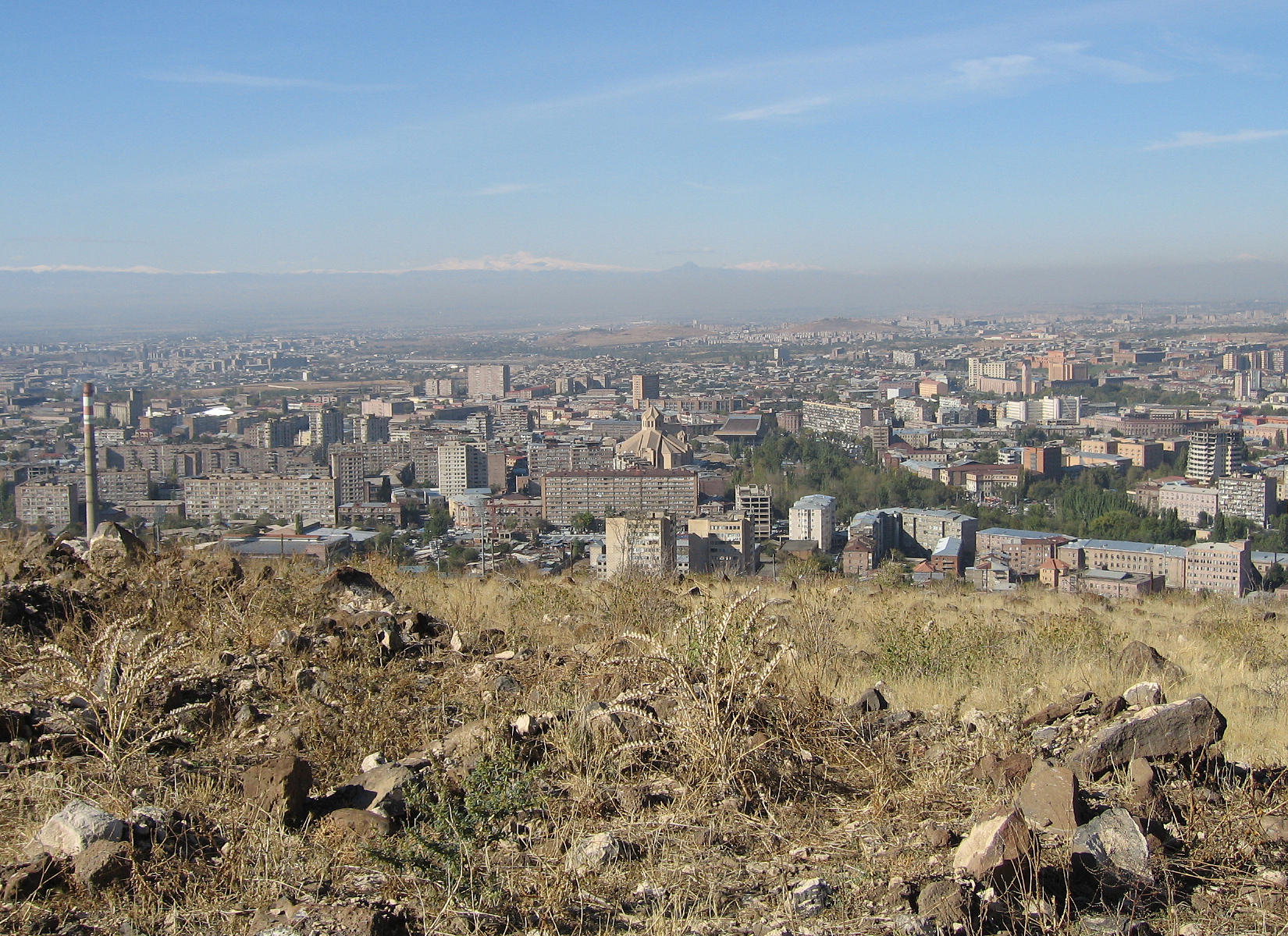 Yerevan, Armenia